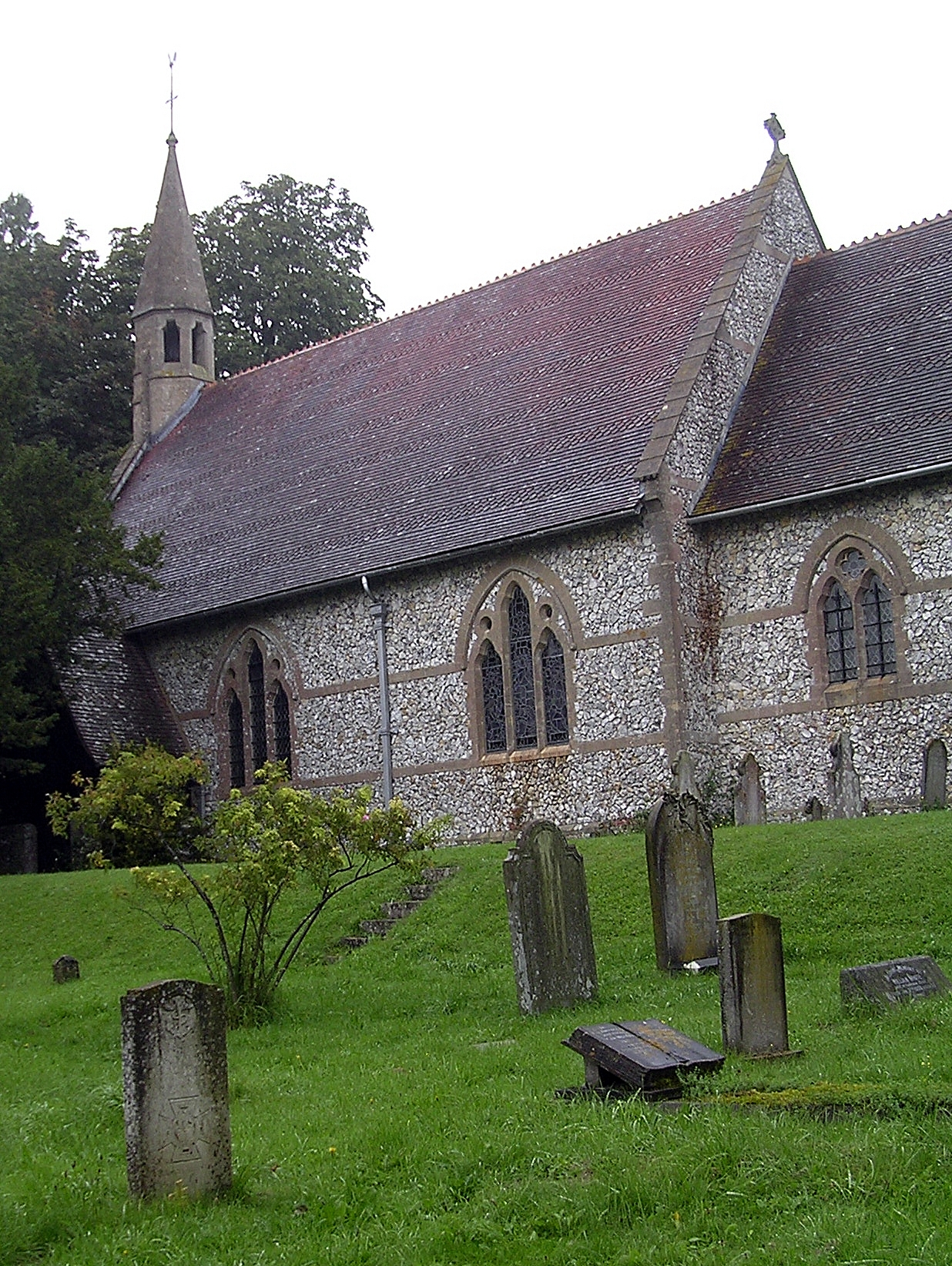 Photo taken by author, August 2007